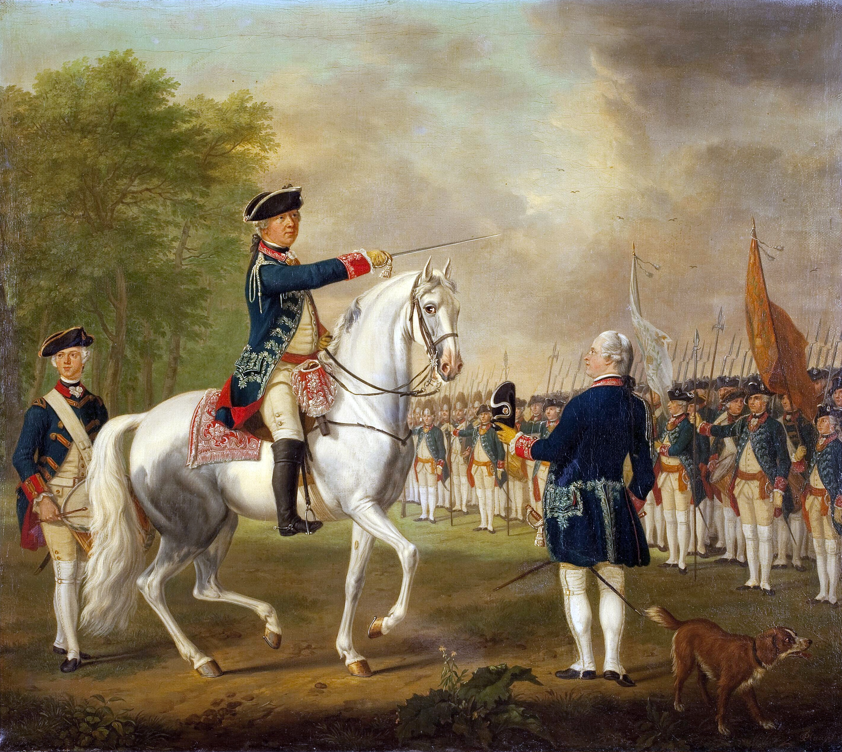 Exercise of the Hollandsche Gardes regiment at the Koekamp in The Hague under the command of Jacob van Kretschmar. Jacob van Kretschmar on horseback as colonel commander of the Dutch guards on foot, inspecting this regiment, presented to him by his son Constantijn in the foreground on the right. Jacob van Kretschmar (Delft, 1721 - The Hague, 1792) was Lord of Veen, Wijk and Aalburg; officer of the Infantry; governor of Heusde; lieutenant colonel of the Hollandish guards-on-foot; Lieutenant General. He was married to Charlotta Alida Vlaerdingerwout. Son: Constantijn van Kretschmar. Constantijn van Kretschmar (The Hague, 1757 - The Hague, 1807) was Lord of Wijk and Aalburg. Officer of the Infantry, lieutenant colonel of the Hollandish guards-on-foot, Major General of the Infantry. He was married to Maria Leopoldina Catharina van Oijen. Son: Jacob Adriaan van Kretschmar.